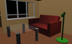 Apartment interior